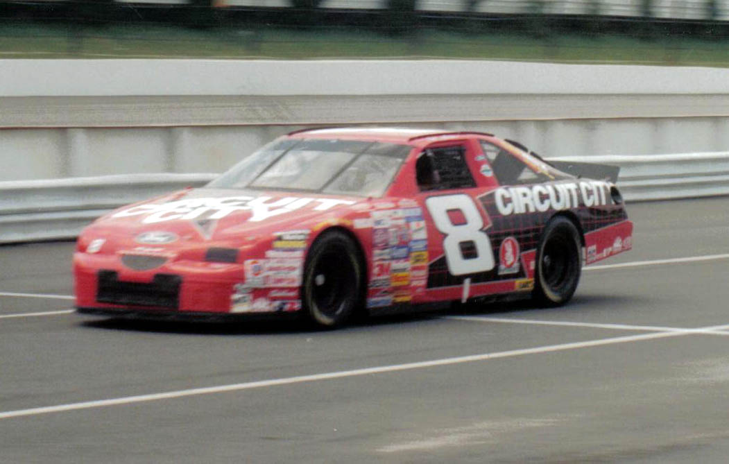 NASCAR driver Hut Stricklin in the Stavola Brothers #8 in 1997 at Pocono.